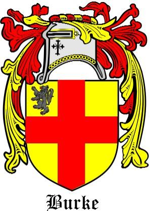 De Burgh Arms